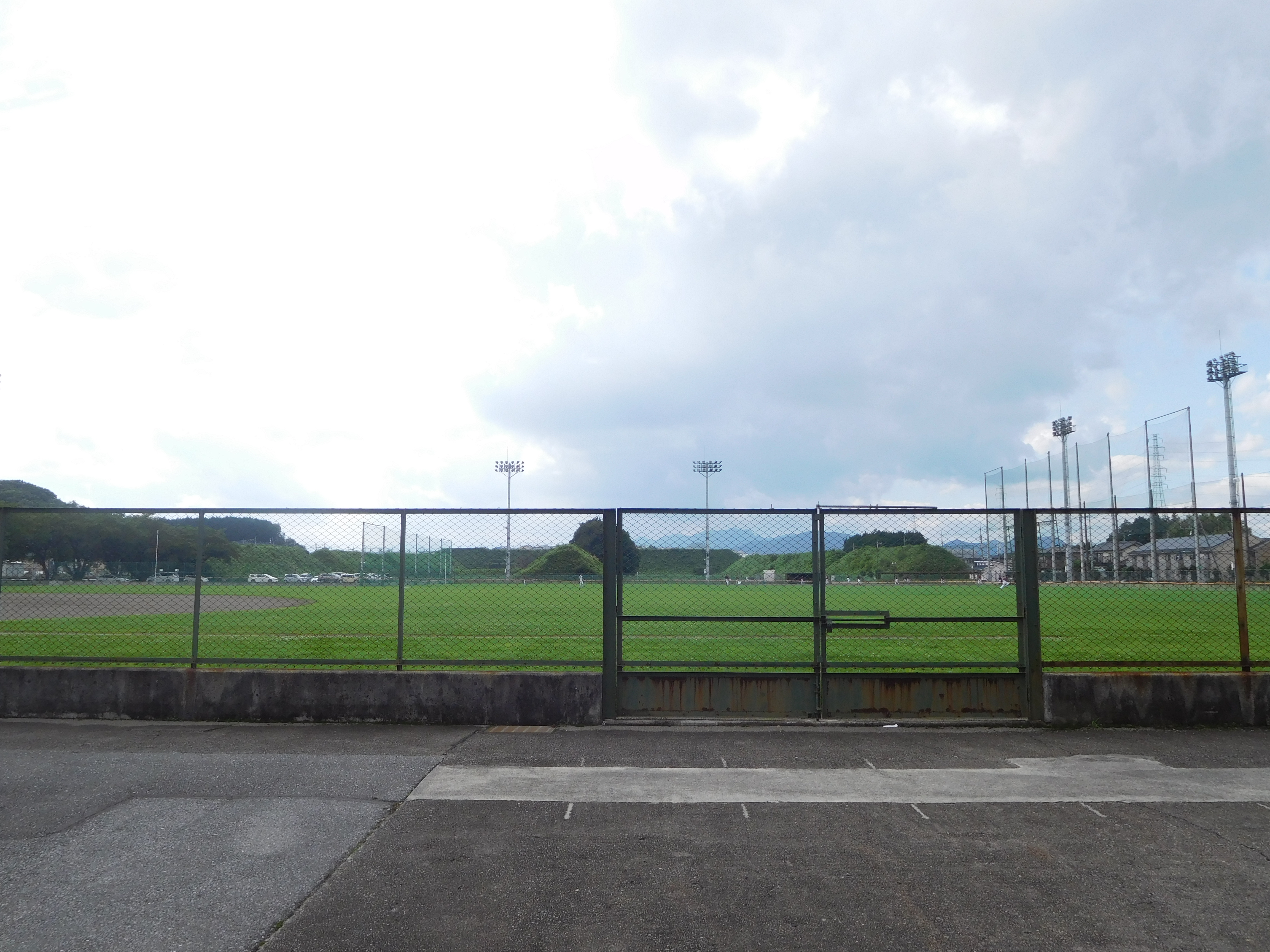 This is Komanyu Sports Park in Utsunomiya, Tochigi, Japan.